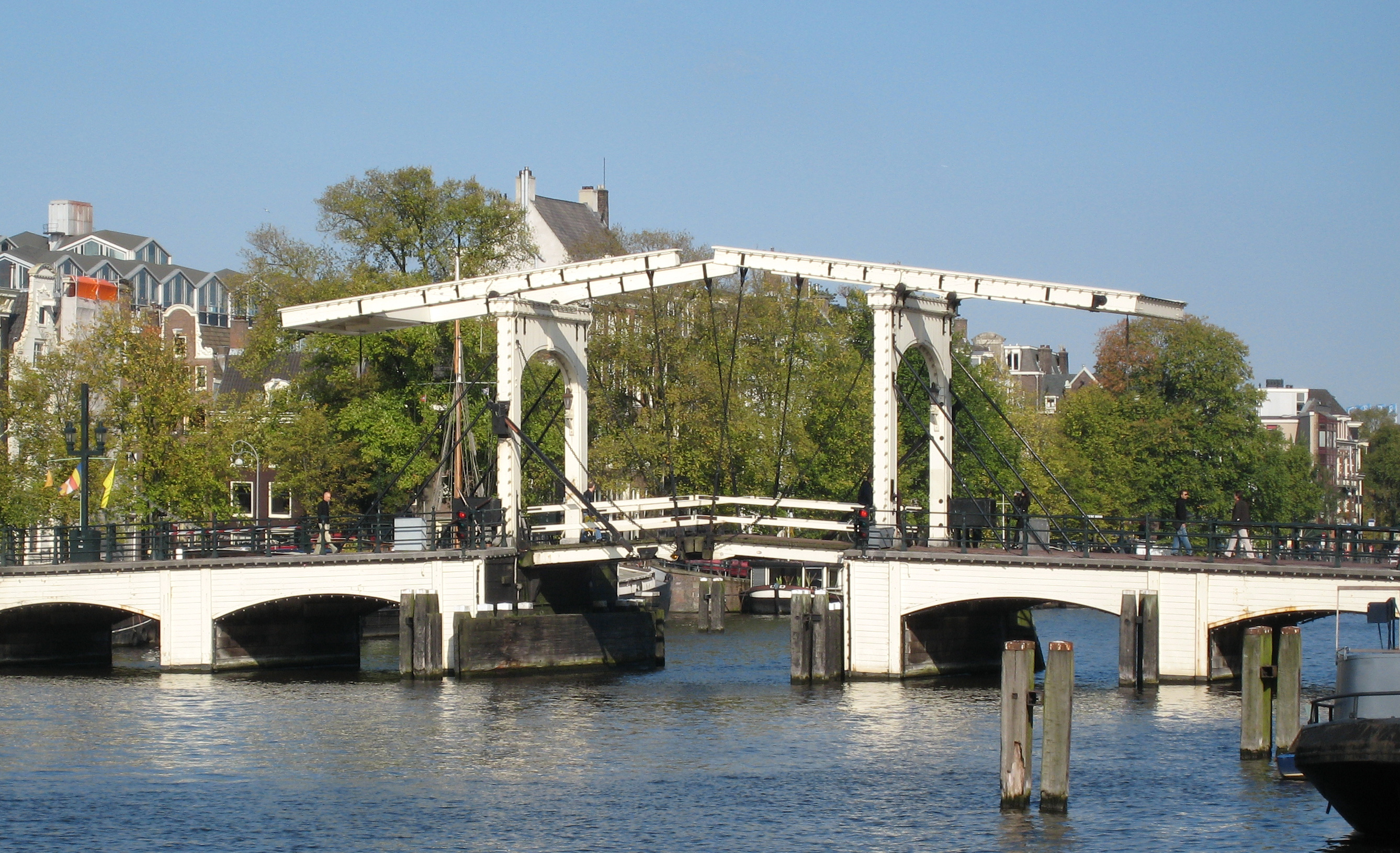 The Magere Brug ("Skinny Bridge") is a bridge over the river Amstel in the city centre of Amsterdam.